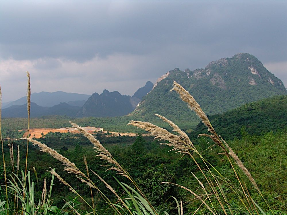 Photo of the Rockpile, Quang Tri Province, Vietnam from Highway 9, Jan 2004